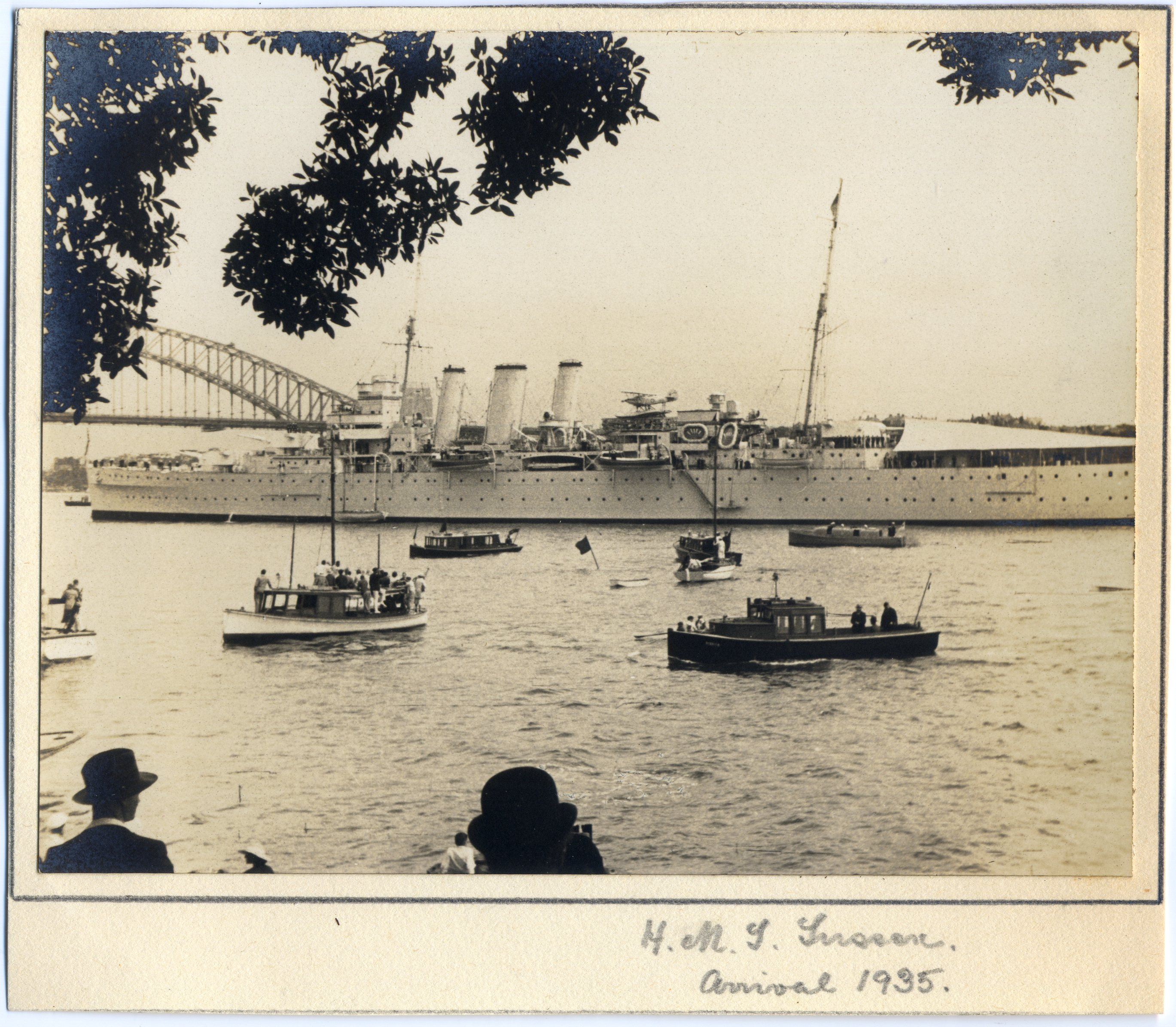 RAHS/Osborne Collection